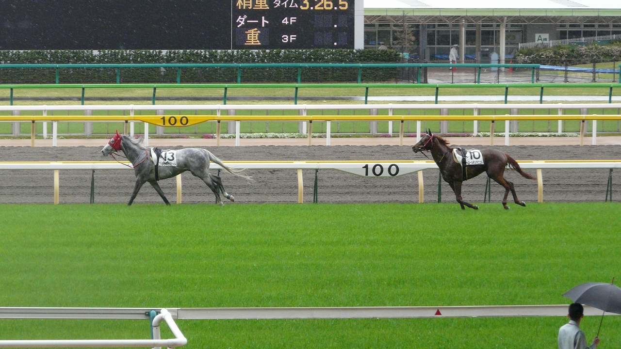 Tokyo-Racecourse-01